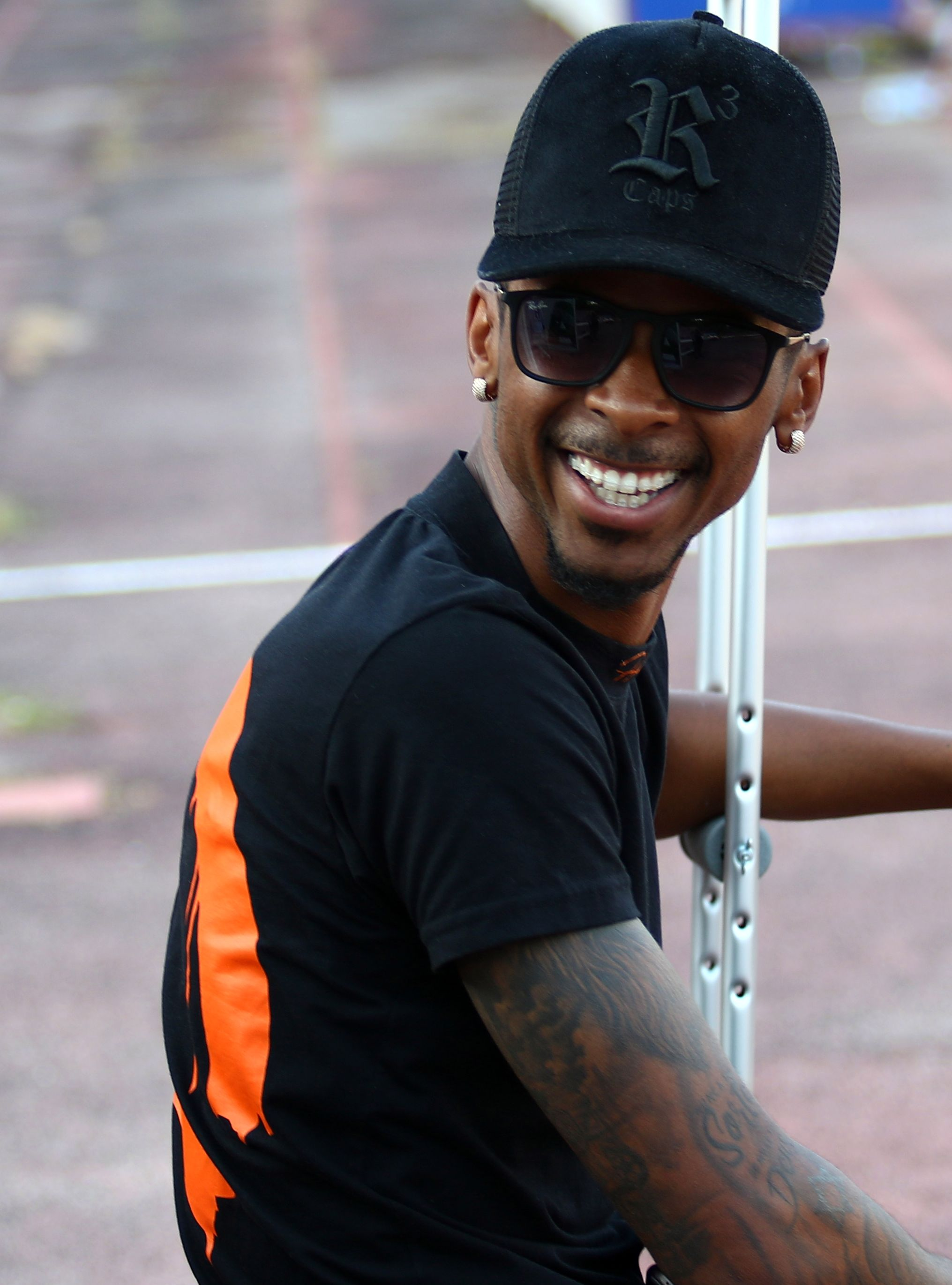 Henrique Roberto Rafael (born 23 August 1993), better known as Henrique, is a Brazilian footballer who plays as a midfielder for Bulgarian First League club CSKA Sofia.